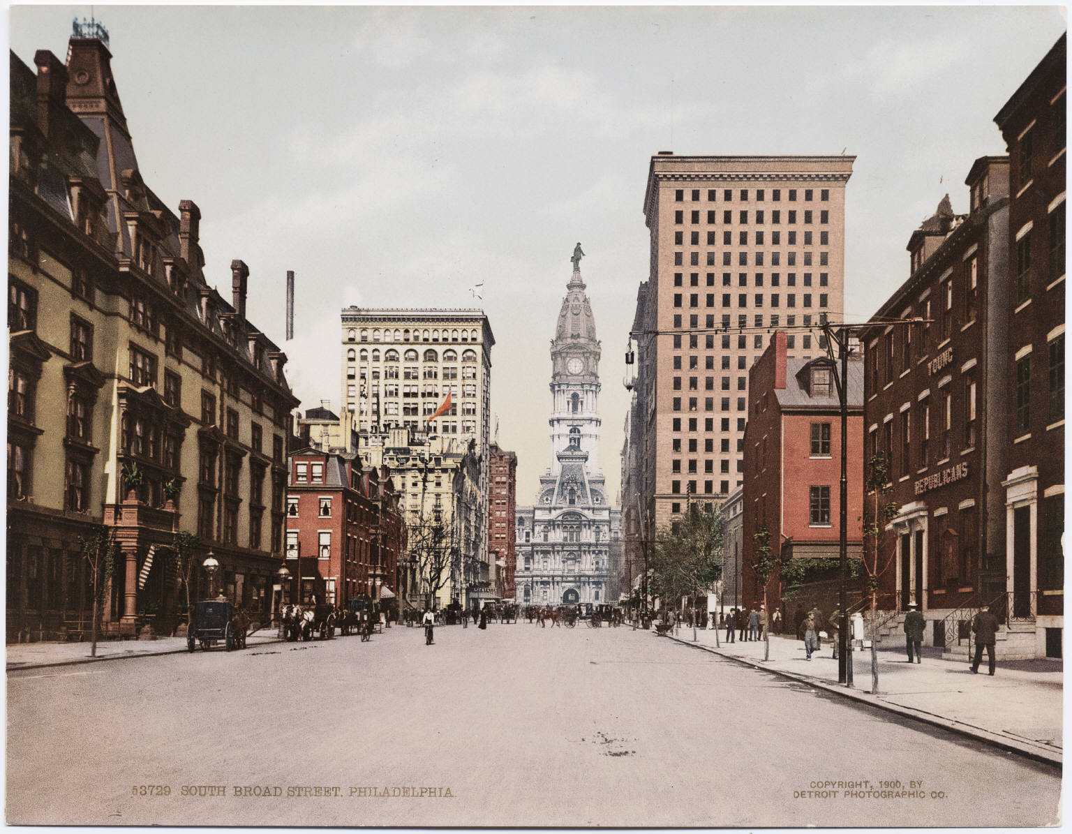 A photochrom postcard of Broad Street in Philadelphia, published by the Detroit Photographic Company.